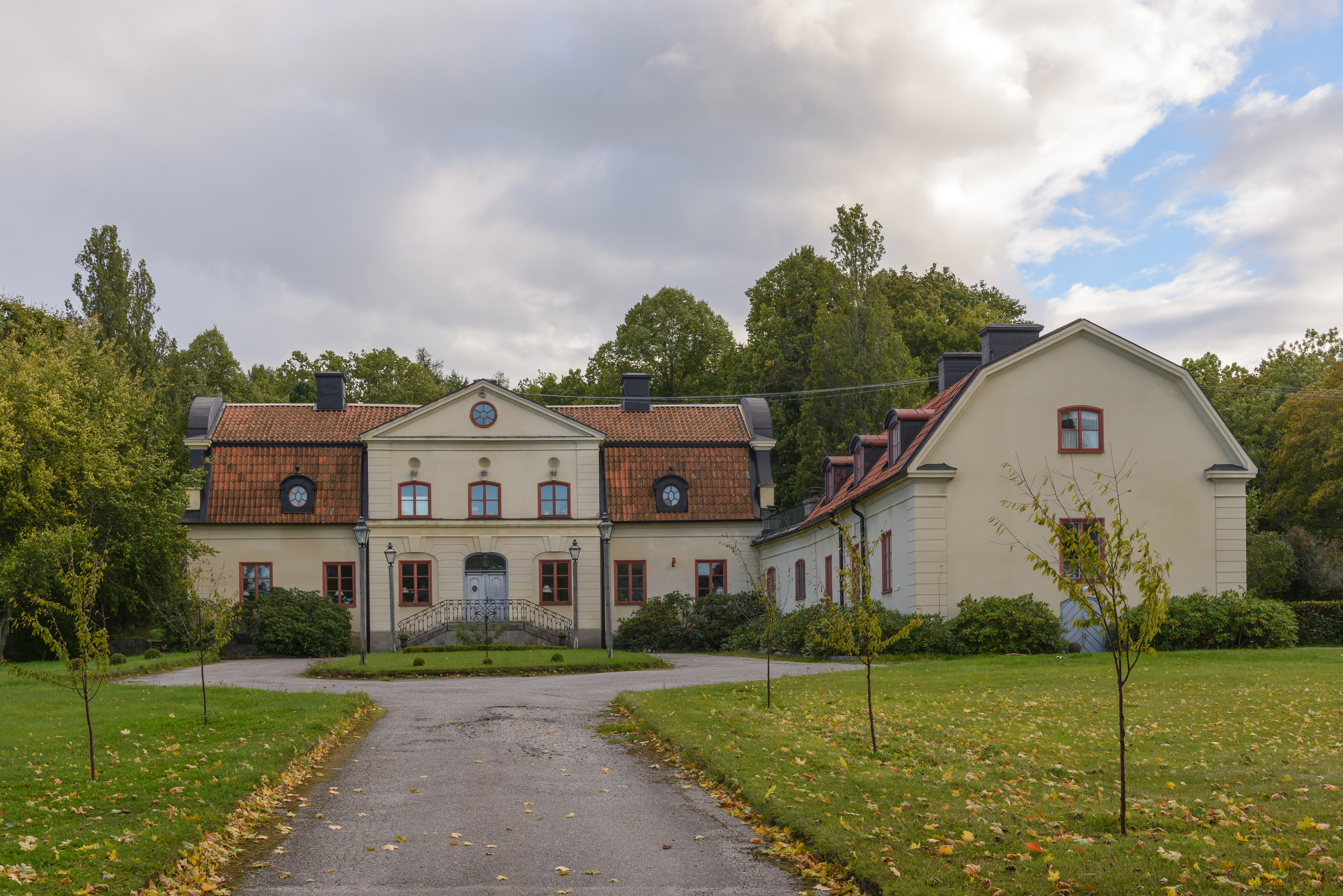 Stenby säteri, Stenby village, Adelsö. Built around 1750, rebuilt 1920 by architect Arvid Stille.